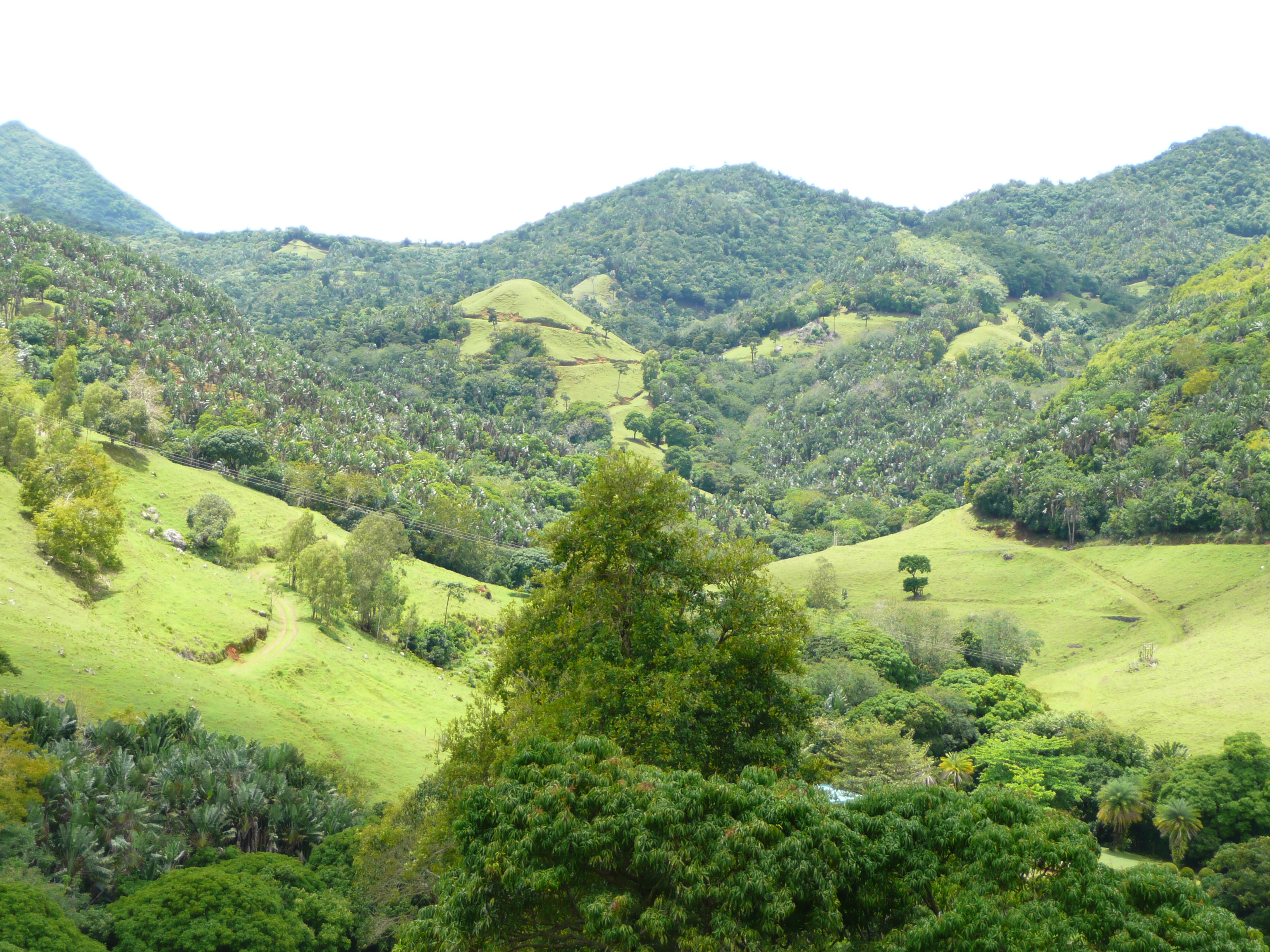 View on Vallée de Ferney in Mauritius and the bay of Grand Port and Mahébourg